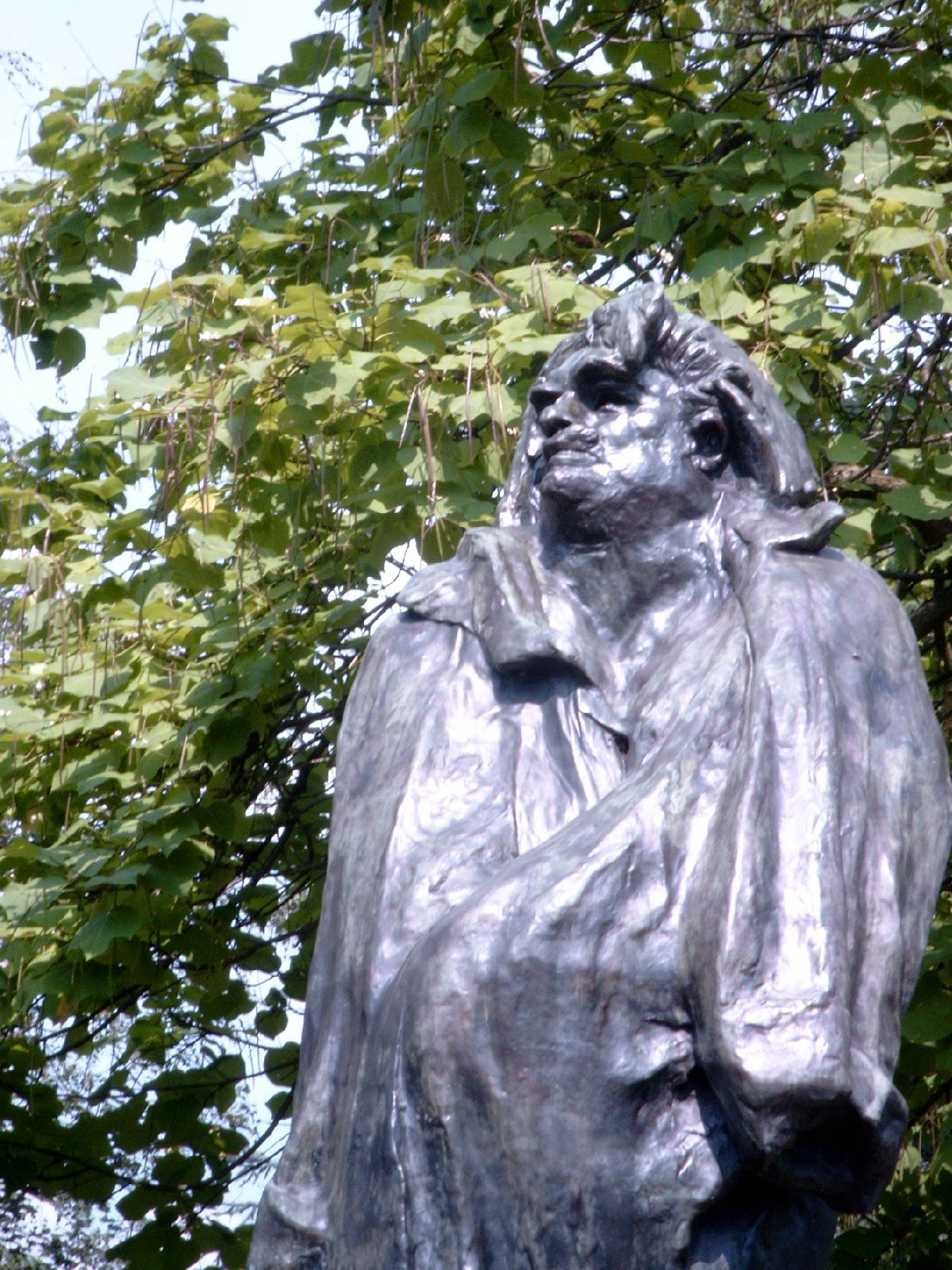 Detail Honoré de Balzac, by Auguste Rodin